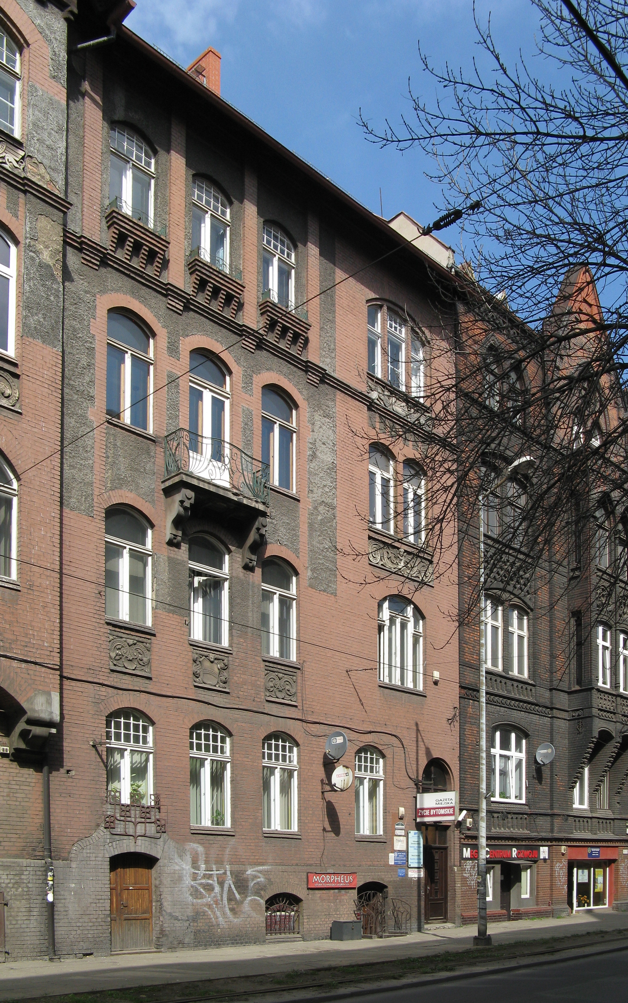 Bytom, Powstańców Warszawskich 15 street, the seat of "Życie Bytomskie", Poland.